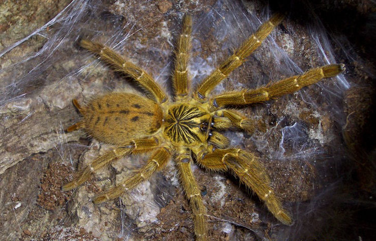 mature orange baboon tarantula